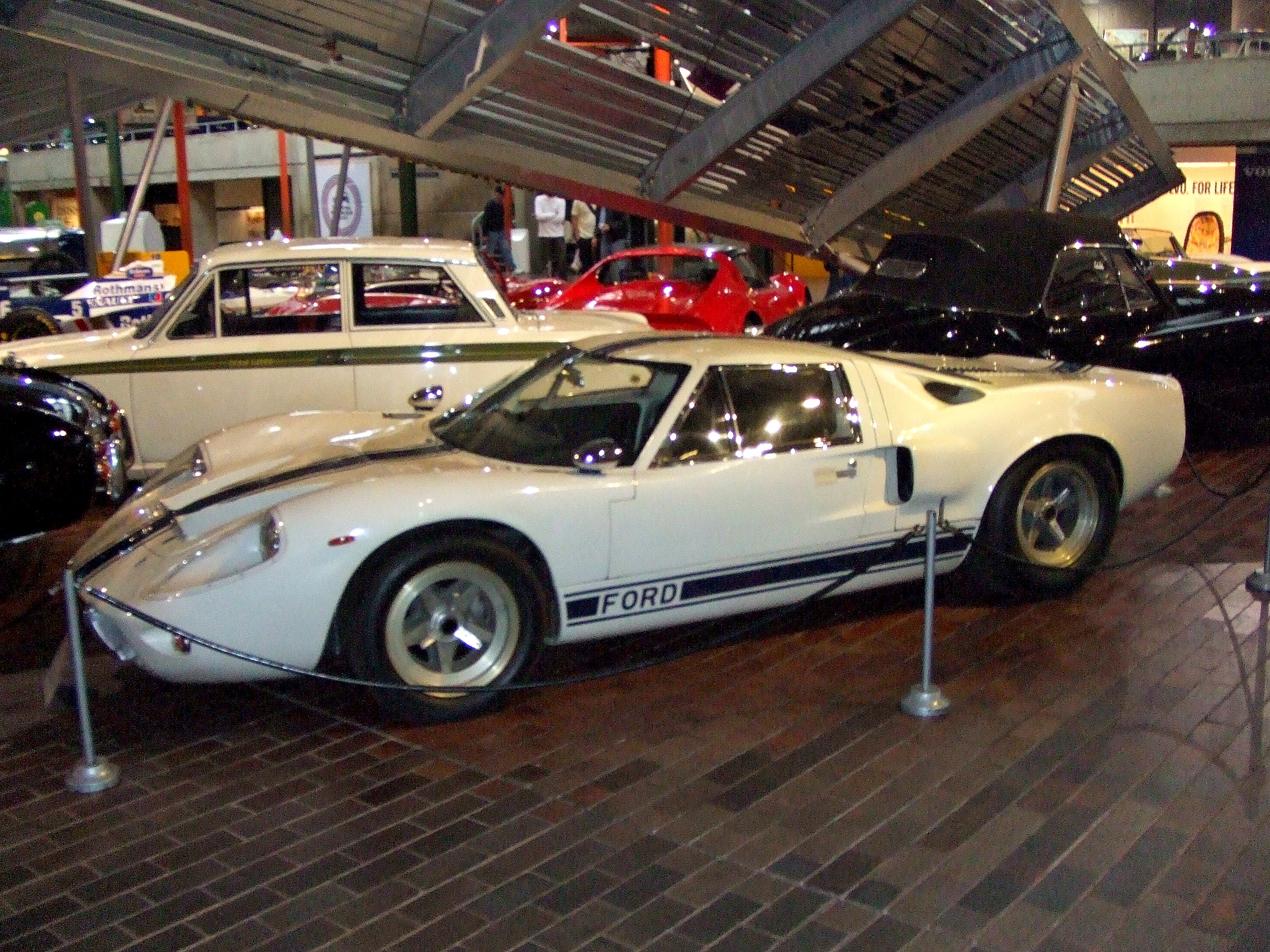 1963 Ford GT40 Mk.III at the Beaulieu Motor Museum, 10/06.